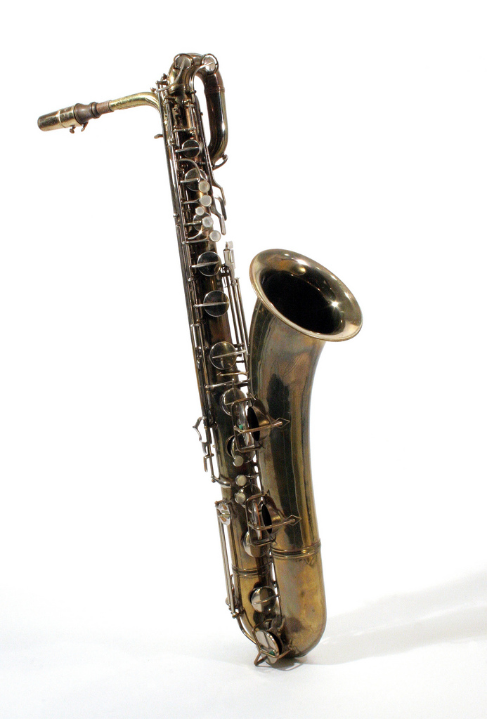 Conn 12M Baritone Saxophone (1956)